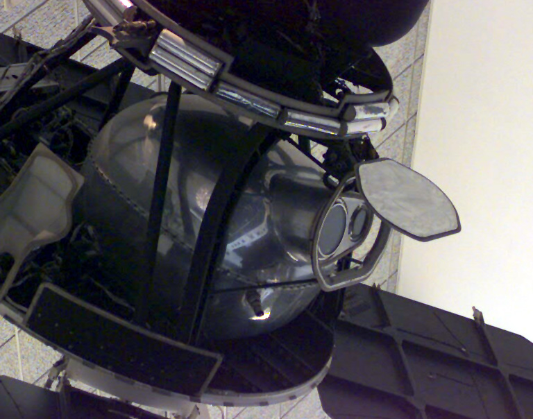 Lunar Orbiter camera (large).